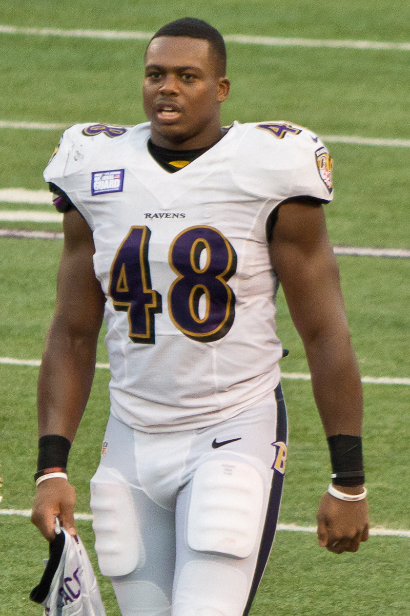 Brandon Copeland at Ravens Stadium Practice Aug 2013